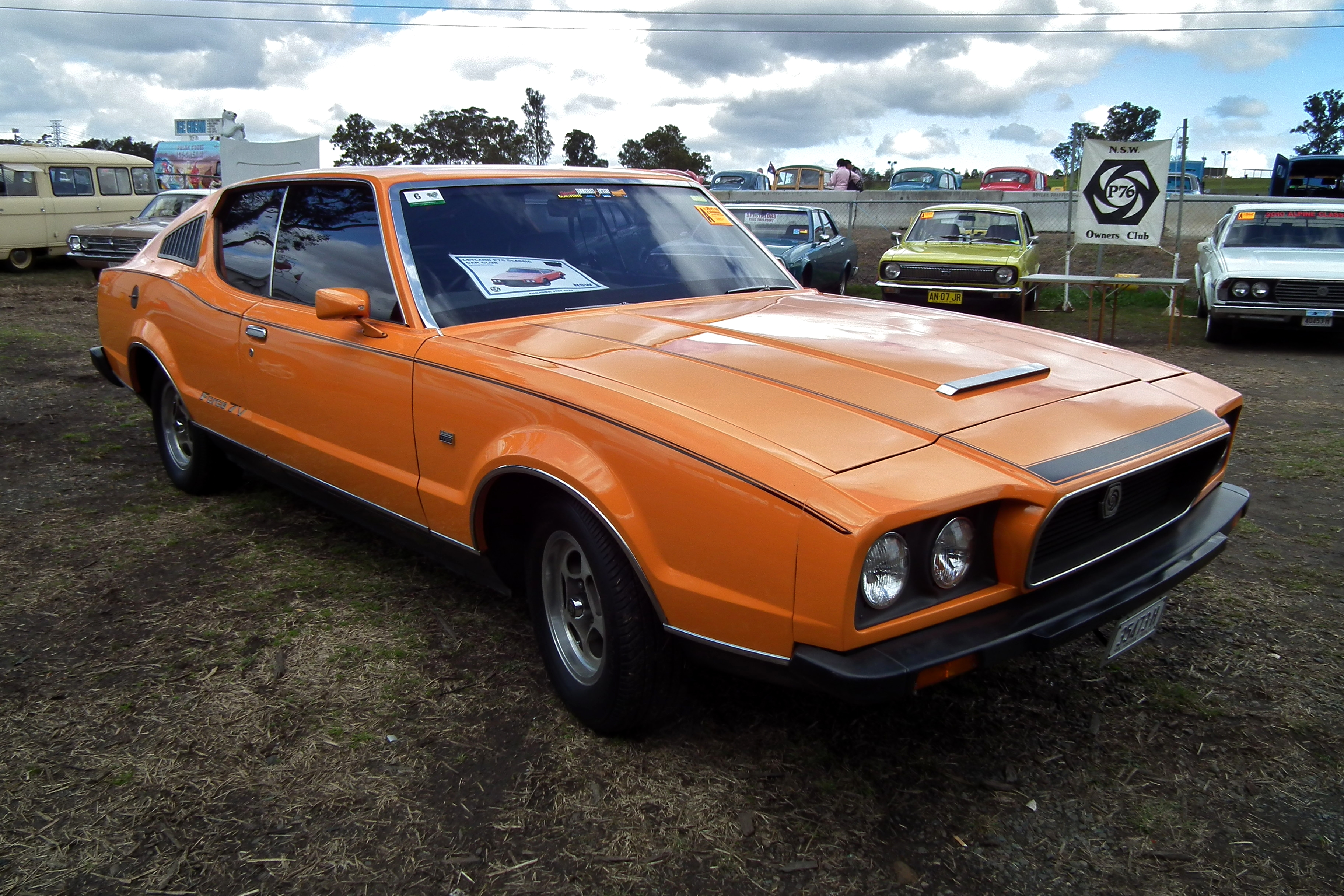 1974 Leyland Force 7V coupe. Taken at Shannon's Eastern Creek Classic 2011, held at Eastern Creek Raceway Sydney.